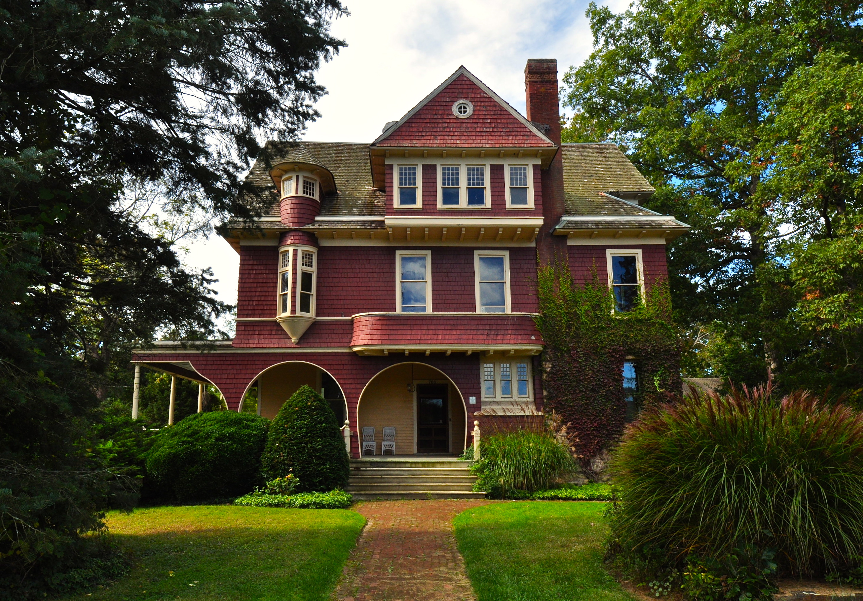 Listed on the National Register of Historic Places